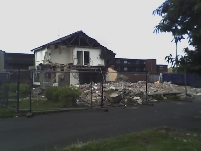 The Newton Hall Pub being bulldozed